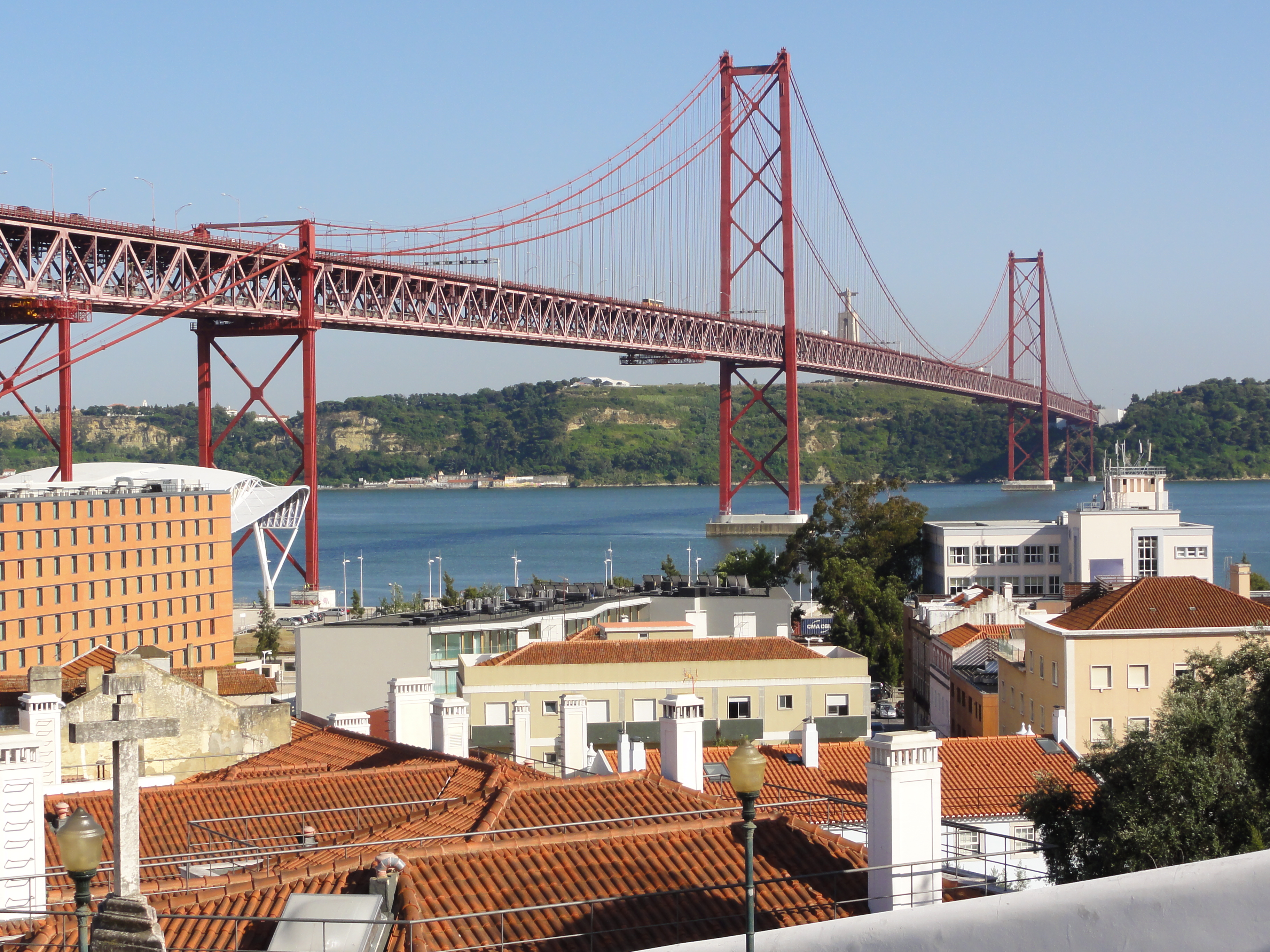 Lisbon the 25th of April Bridge - Tagus river, view from Chapel of Santo Amaro (1549) protector of those who travel the sea XVI century (Rua Gil Vicente / Calçada de Santo Amaro)